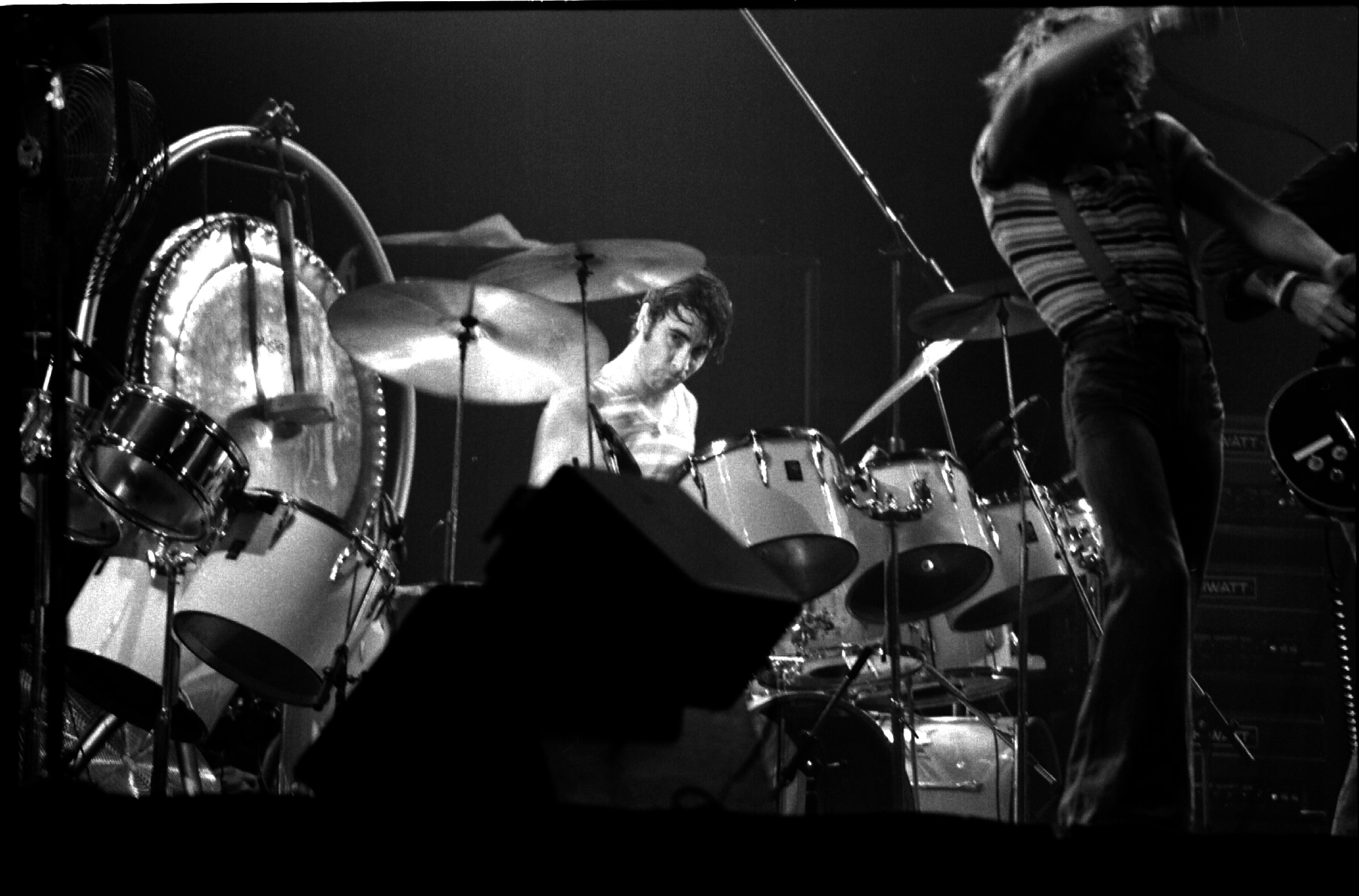 The WHO, MLG,Toronto,10/21/76